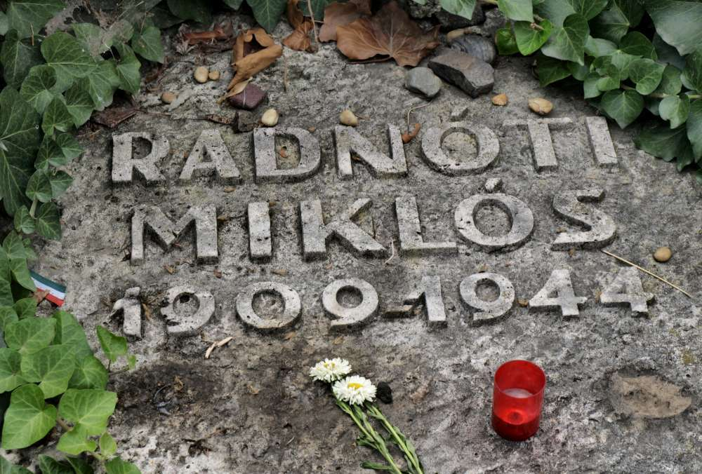 Gravestone of Miklós Radnóti, Hungarian poet